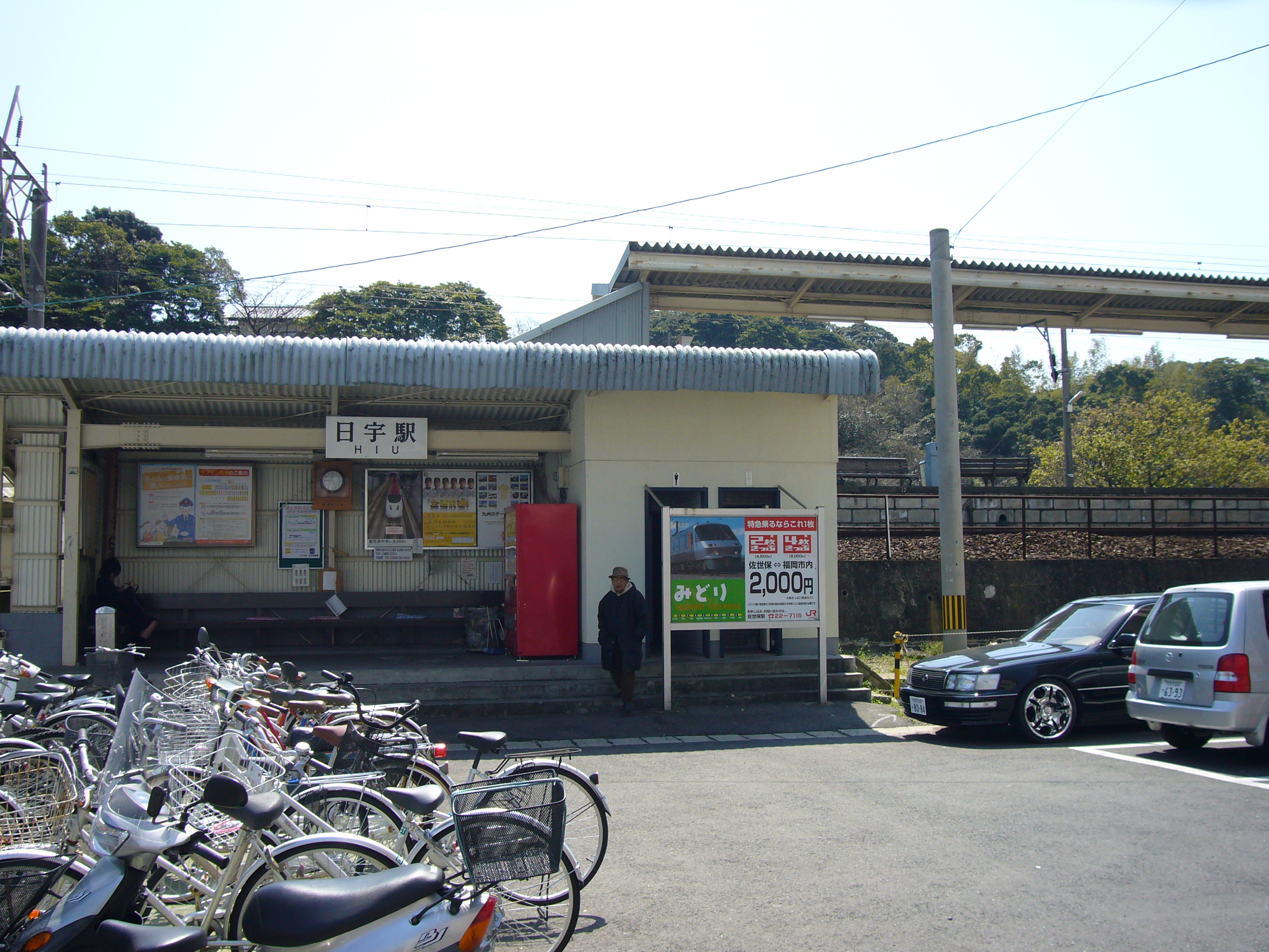 Photograph of Hiu Station.